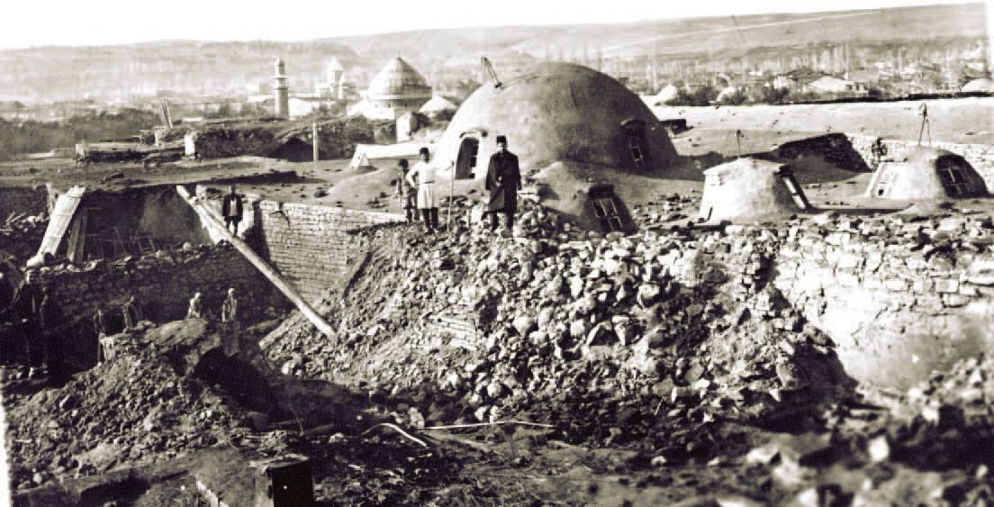 Fantazia bath in Tsakh market, Yerevan